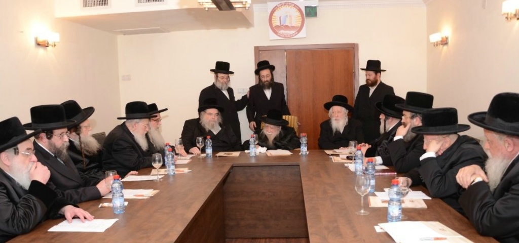 Makeup of Moetzes Agudas Yisroel (February 2013)